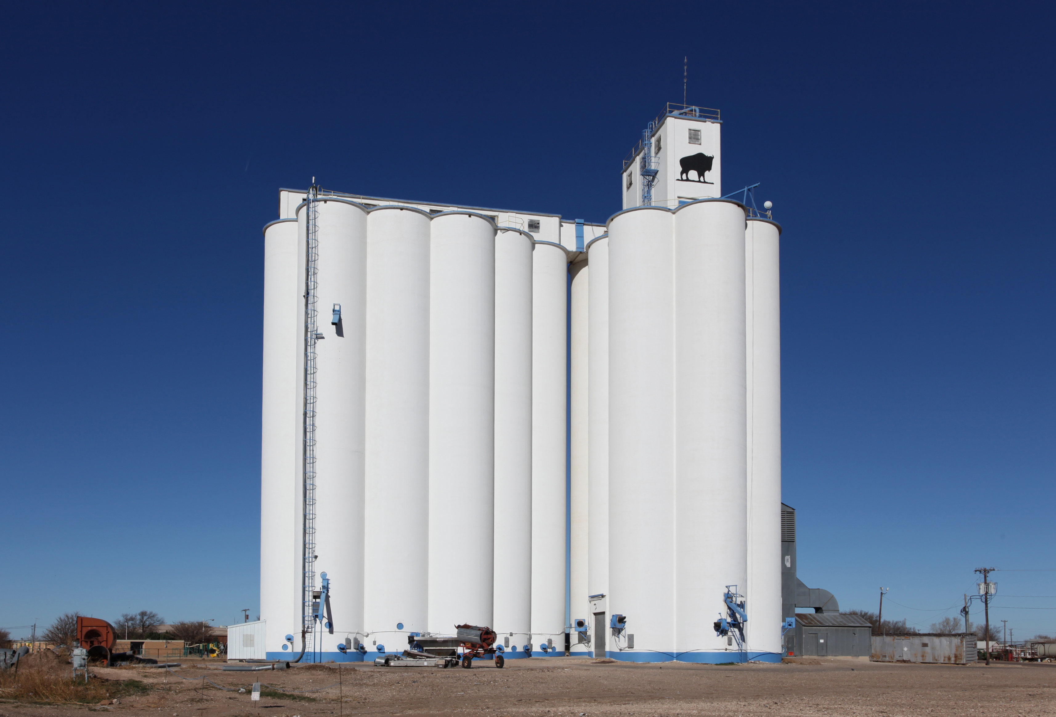 Grain elevator, Petersburg, Texas. High School mascot at top.